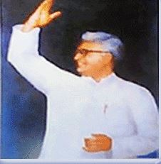 Channusingh Chandele